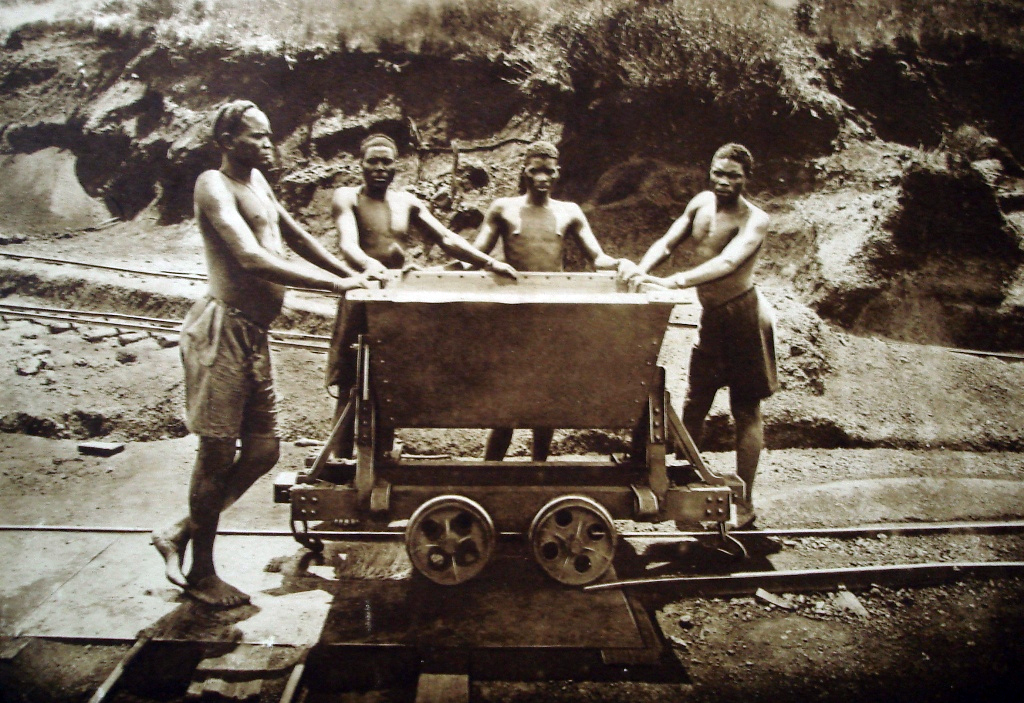 Ruandese workers at the Kisanga copper-mine, Katanga, Belgian Congo, late 1920s.